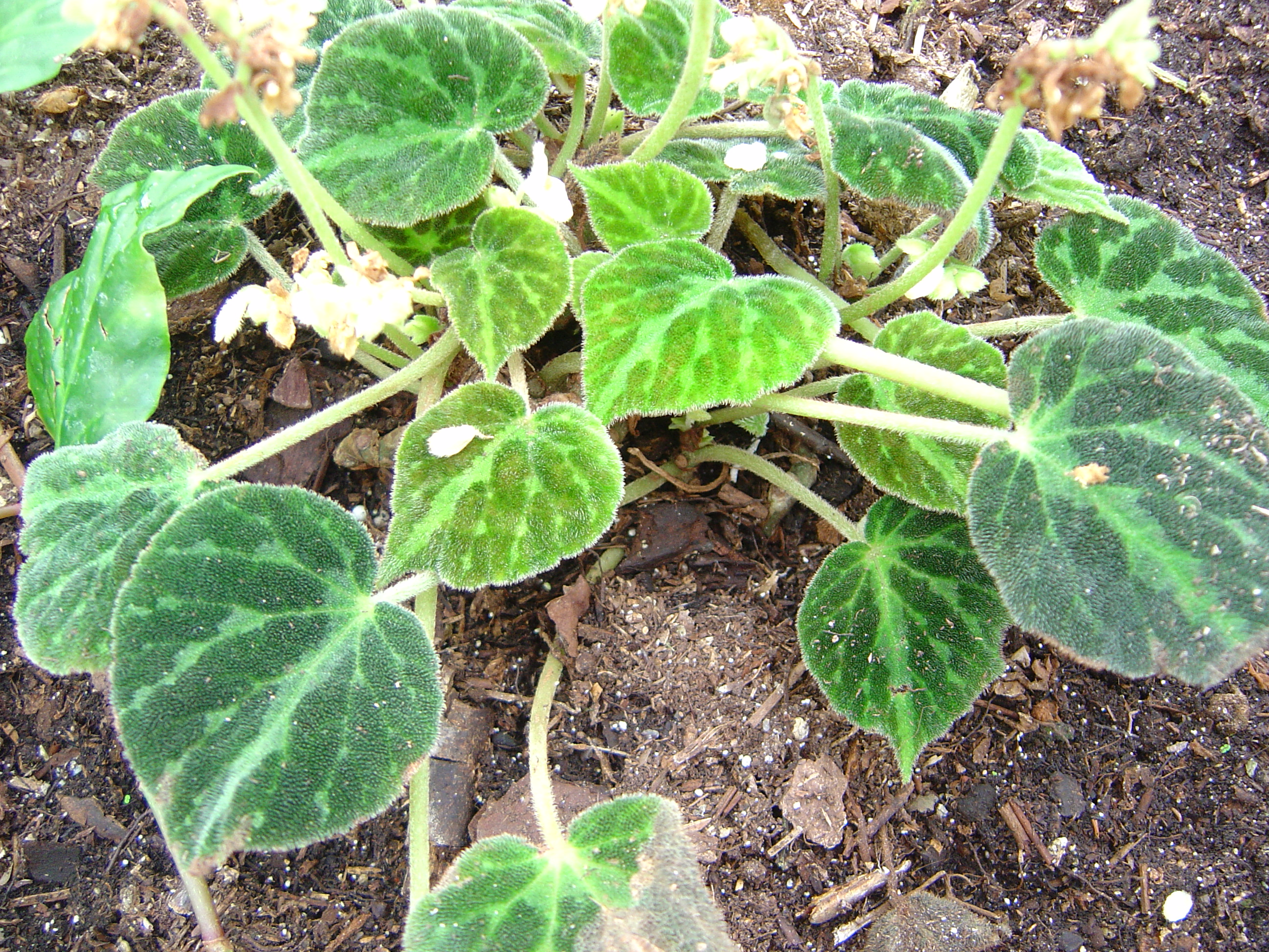 photo catch by myself : Solène Moutardier